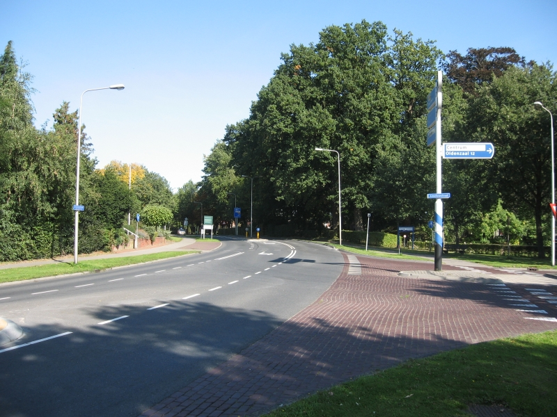 Dutch Provincial Road 349 in Ootmarsum